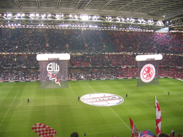 Millennium Stadium, Cardiff, Wales. League cup final February 29th 2004. Middlesbrough - Bolton 2-1.